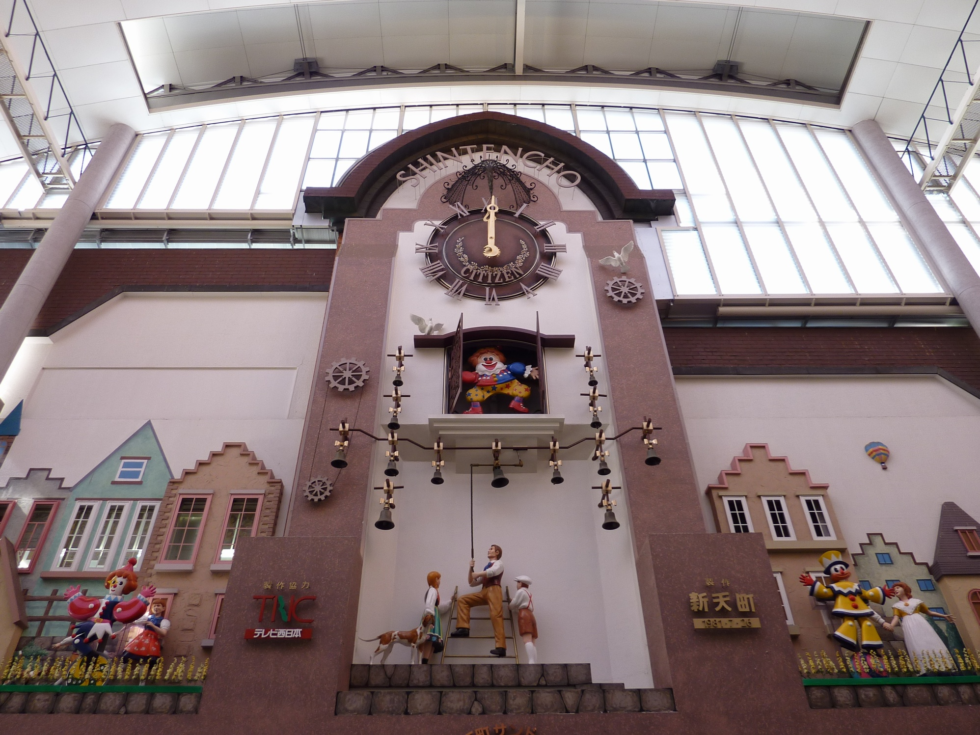 The Clock Tower in Shintencho (Tenjin, Fukuoka, Japan)